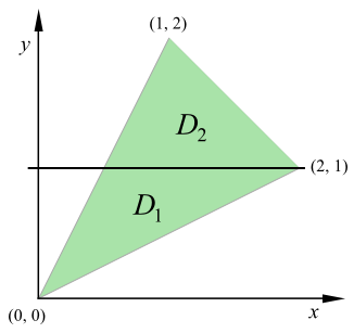 double integral area